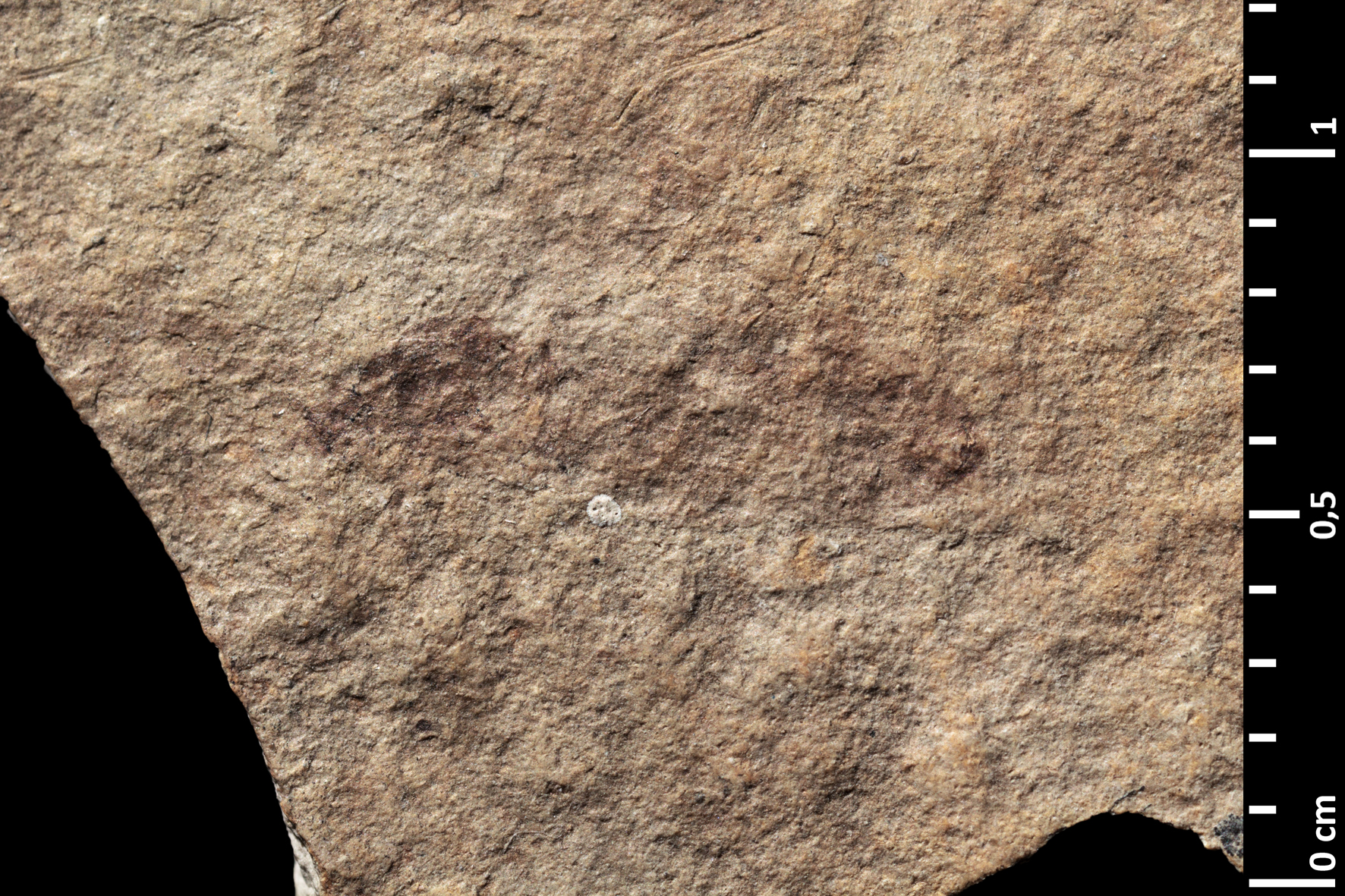 The Penthetria lugens (synonym Protomyia lugens) holotype specimen with direct lighting.